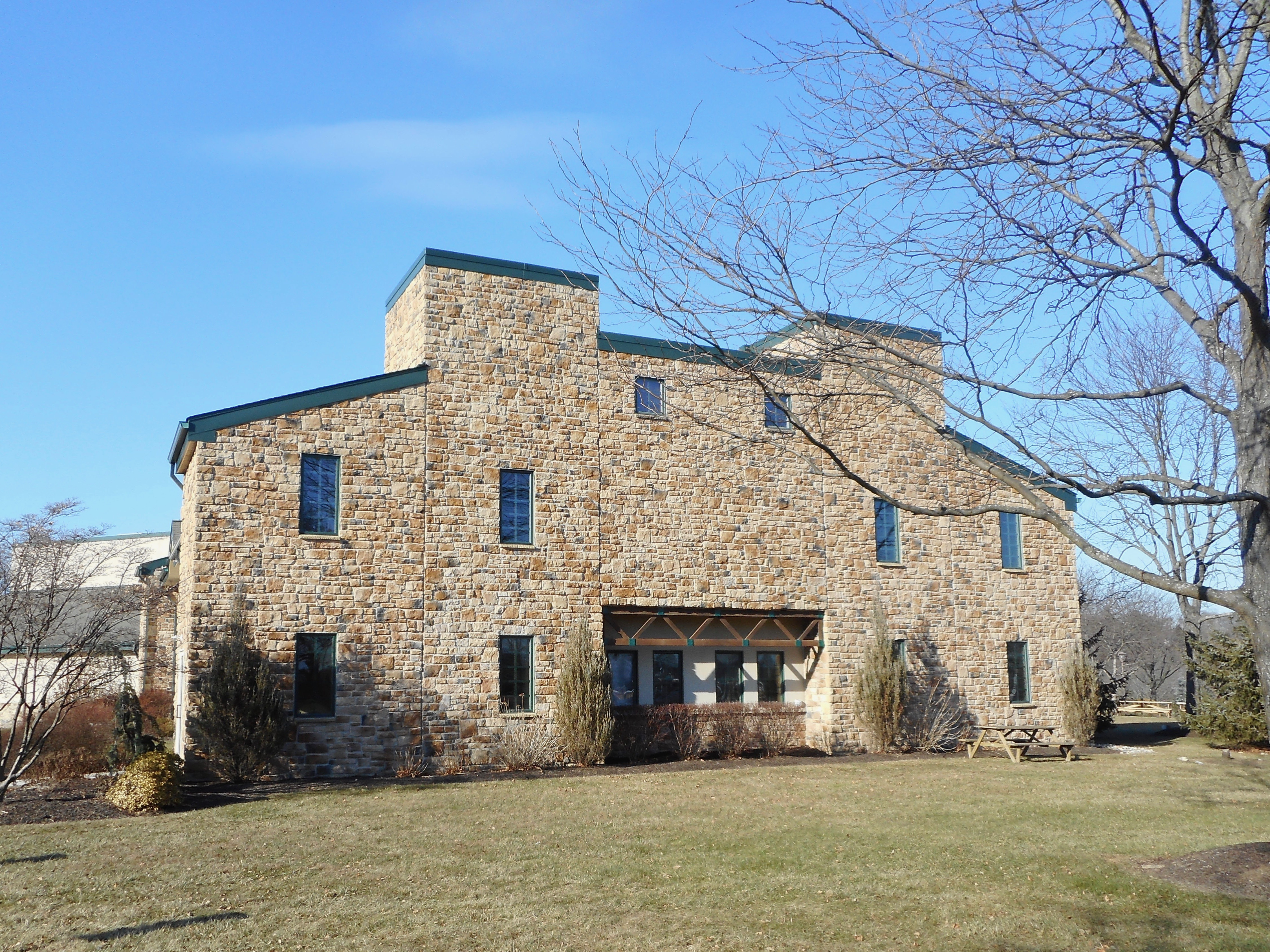 Covenant Fellowship Church in Concord Township, Delaware County, Pennsylvania